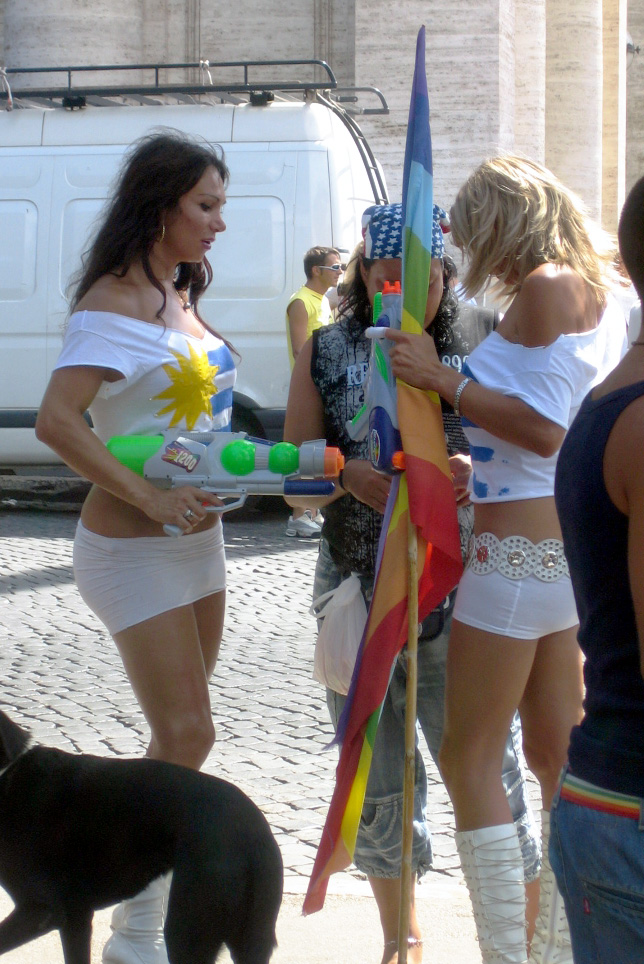 Gay Pride in Rome: The South-American transsexuals turn up in force every year.